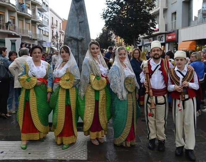 Arbëreshë costume from Spezzano Albanese, Cosenza, Calabria during the Bukuria Arbëreshë in Cosenza, Calabria 2017